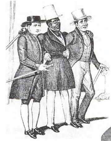 Portrait of David Ruggles (1810 - 1849). Ruggles is the man standing in the center.